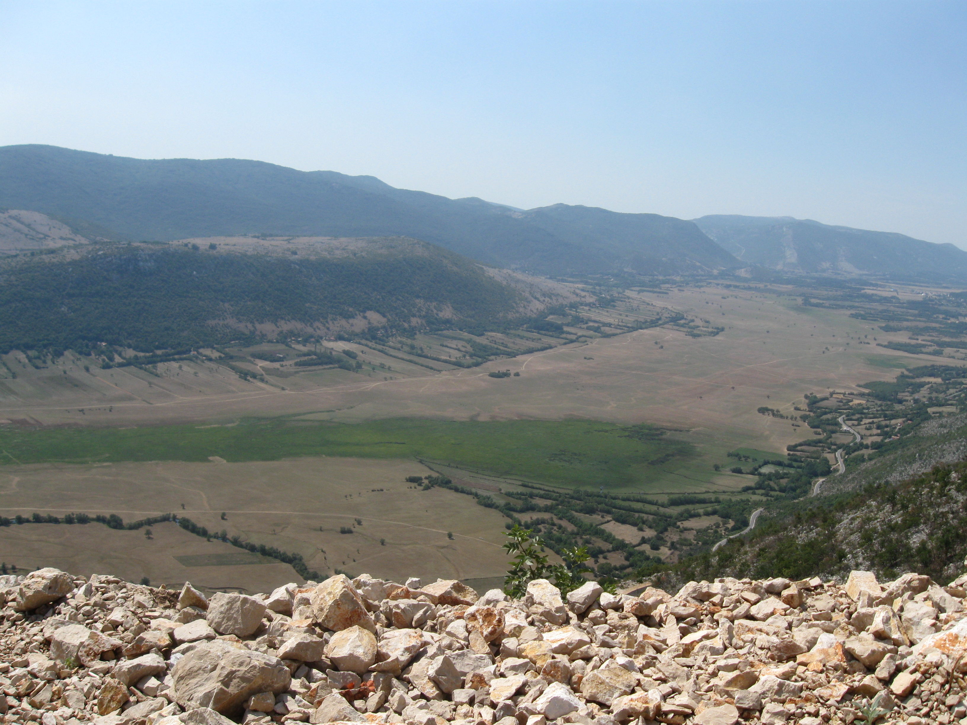 Dabarsko polje, karst field (polje) in Bosnia and Herzegovina Српски (ћирилица): Дабарско поље, крашко поље у Херцеговини, у близини Невесиња